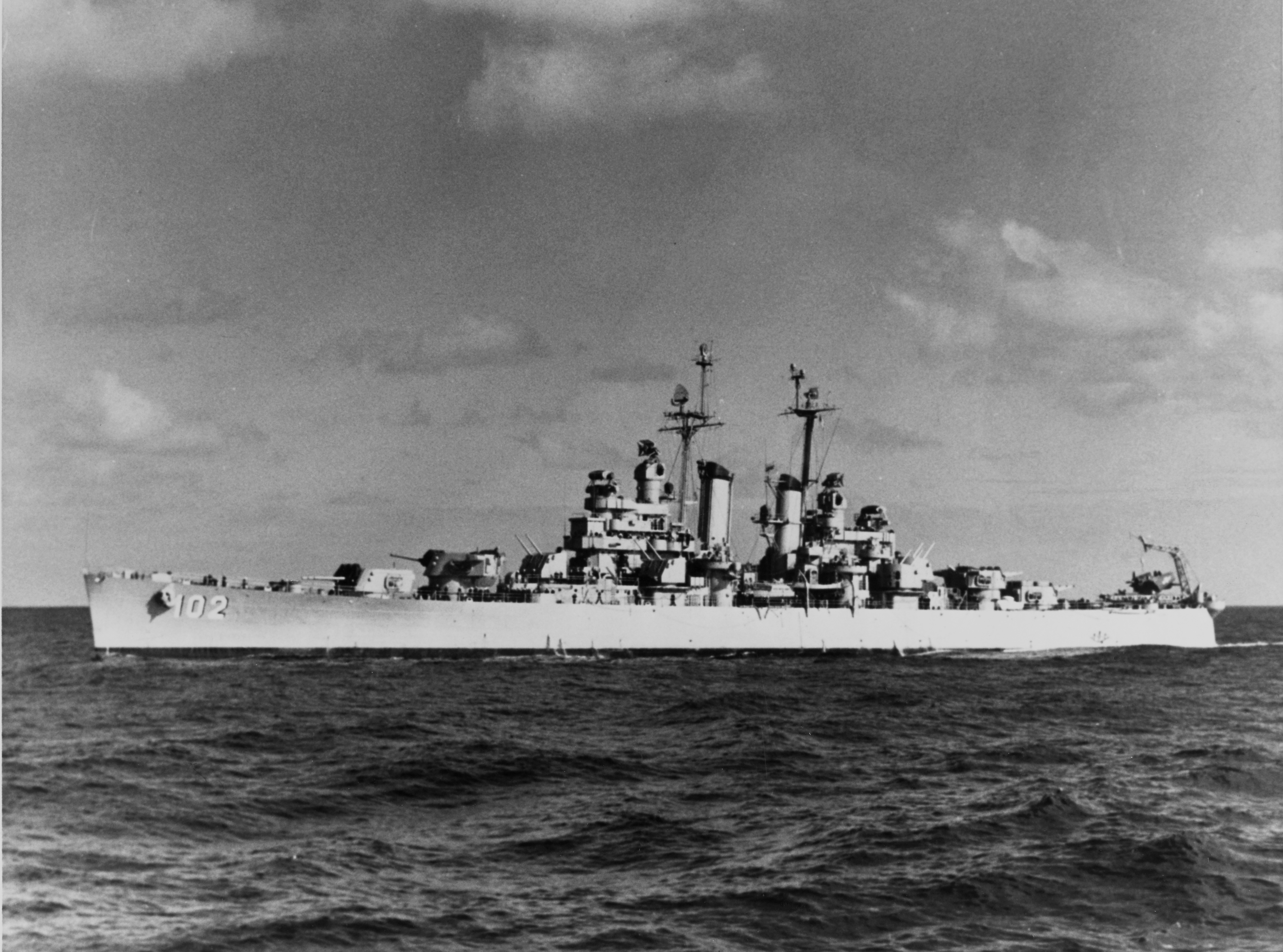 The U.S. Navy light cruiser USS Portsmouth (CL-102) underway at sea on 22 April 1948.